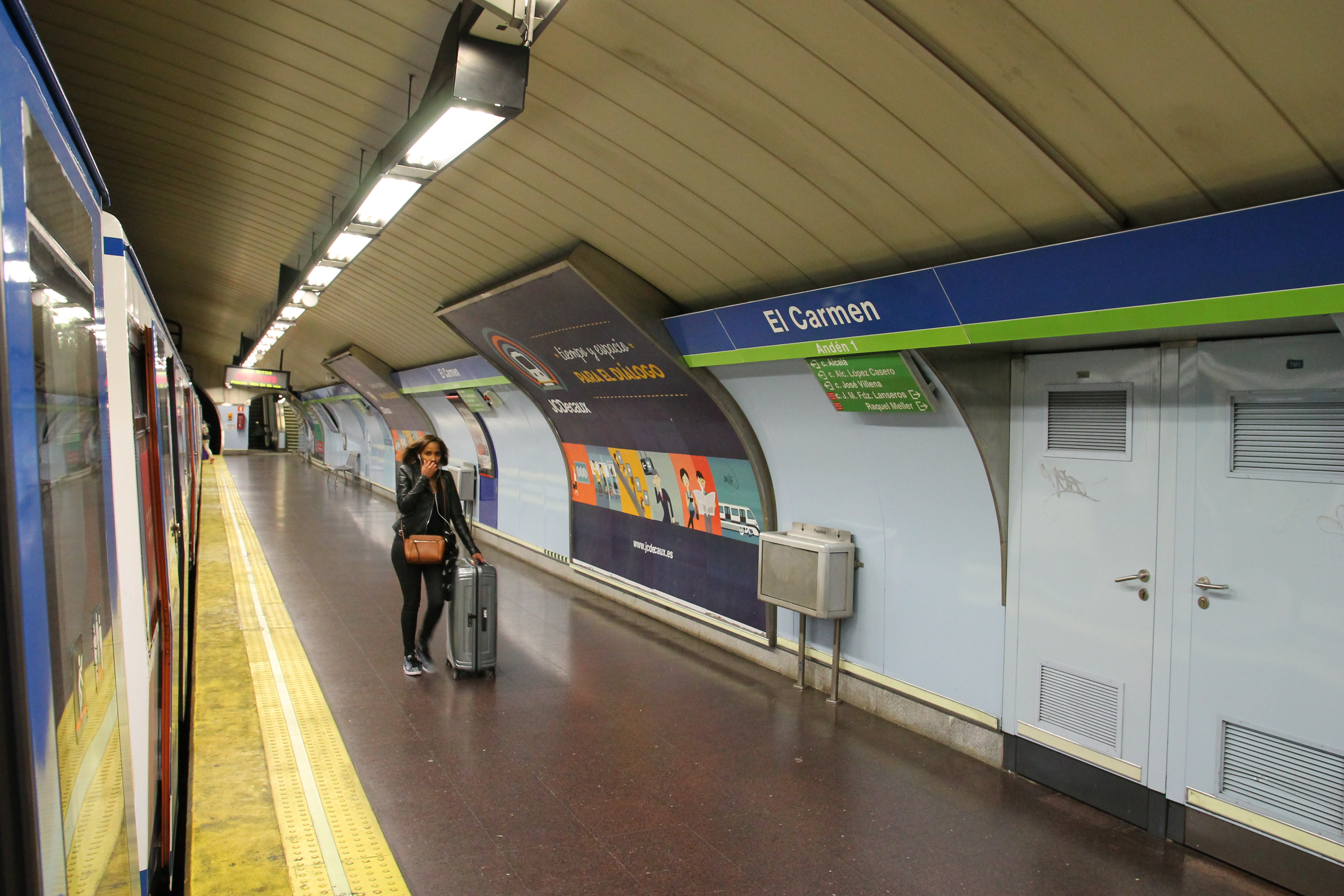 Estación de El Carmen